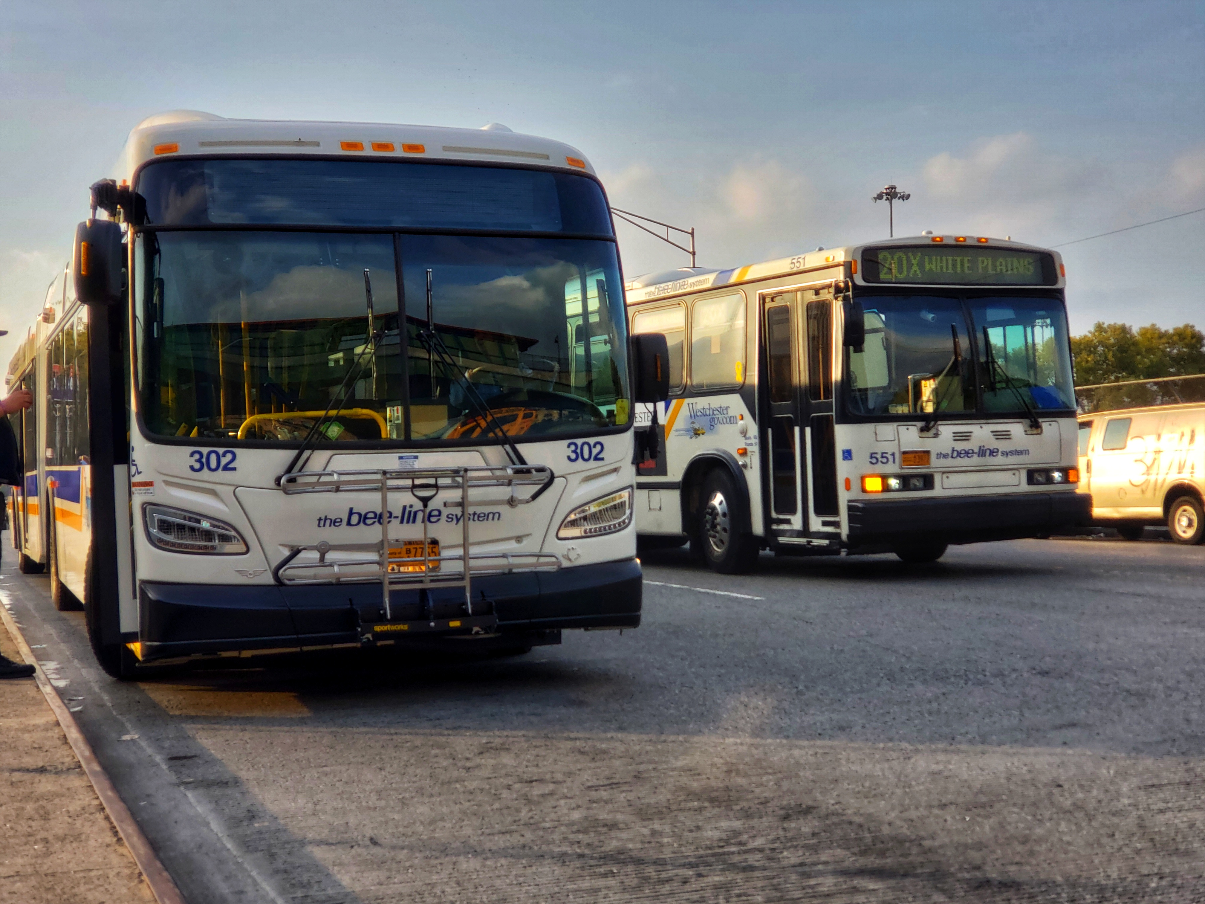 XDE60 302 and Neoplan AN460 551 pass each other at Bedford Park.